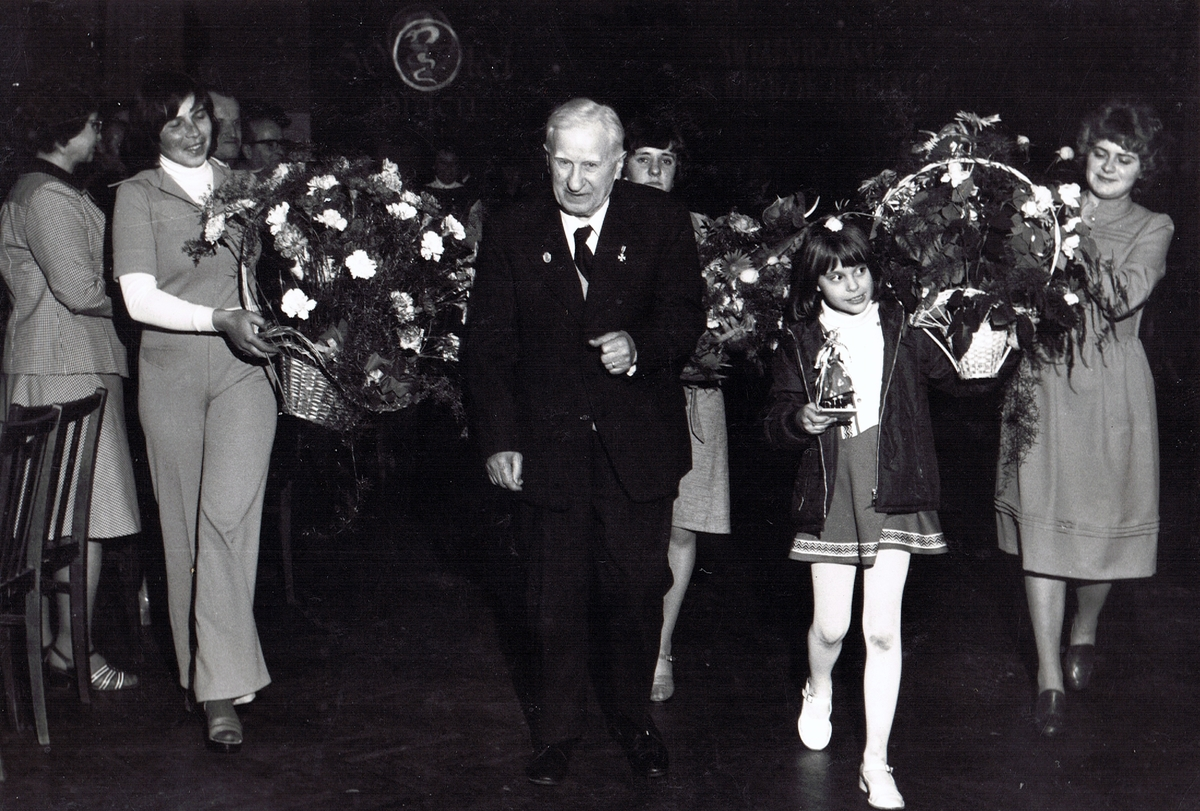 m.d. Franciszek Bielowicz